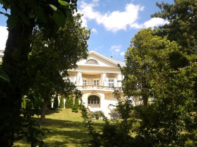 HQ of UNHCR Central Europe, Budapest, HUNGARY.